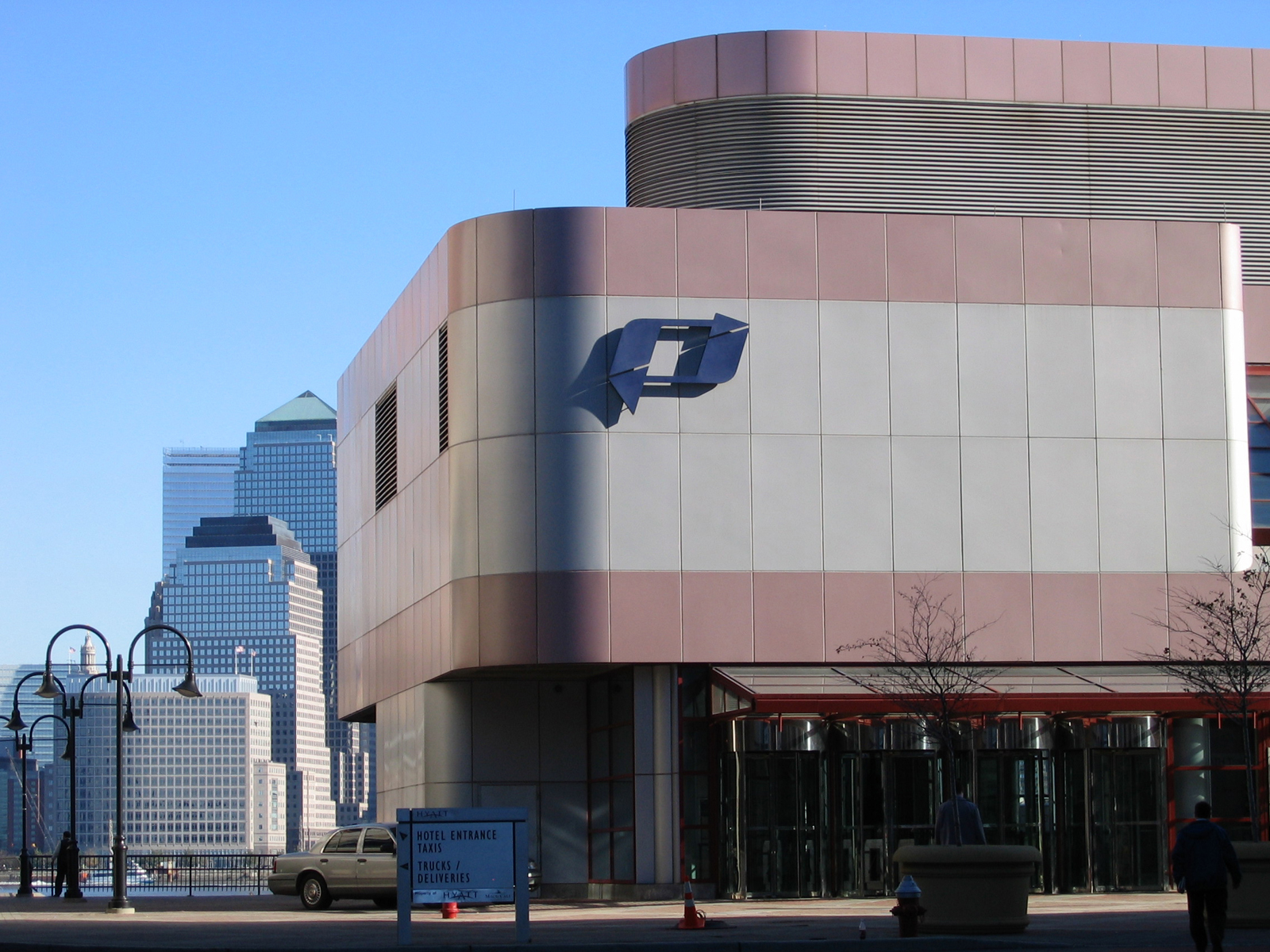 Exchange Place PATH station in Jersey City, New Jersey.